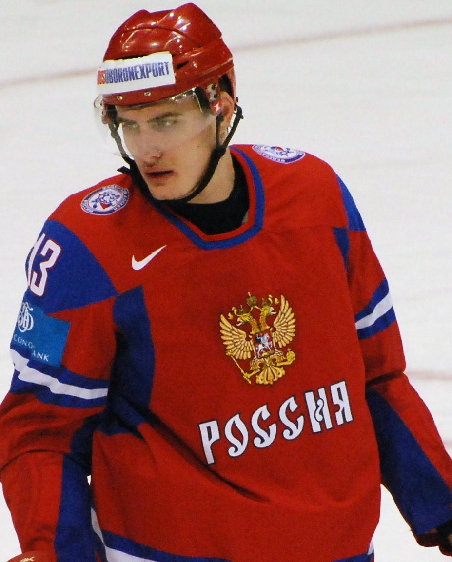 Maxim Kitsyn during a game at the 2010 World Junior Hockey Championships.